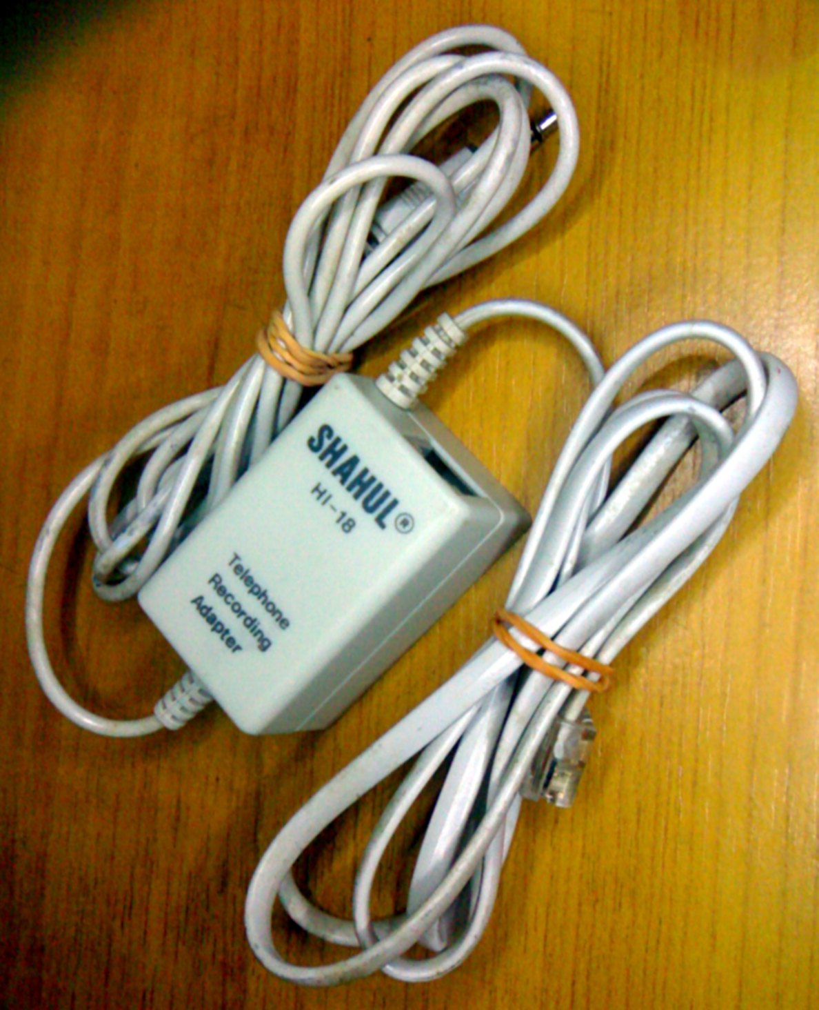 Picture of a telephone recording adapter for use in its related articles. Taken by me using Nokia N-70 w/ help of magnifying glass and White LED camping light.